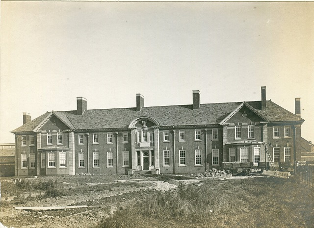 Carlton Hayes Hospital under construction in 1904 (no known copyrights)